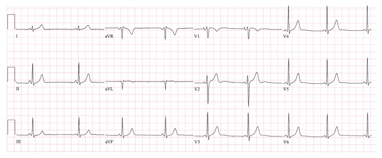 ECG recorded from a 17-year-old man with Lown-Ganong-Levine syndrome. PR interval is 0.10 seconds with normal QRS duration and morphology